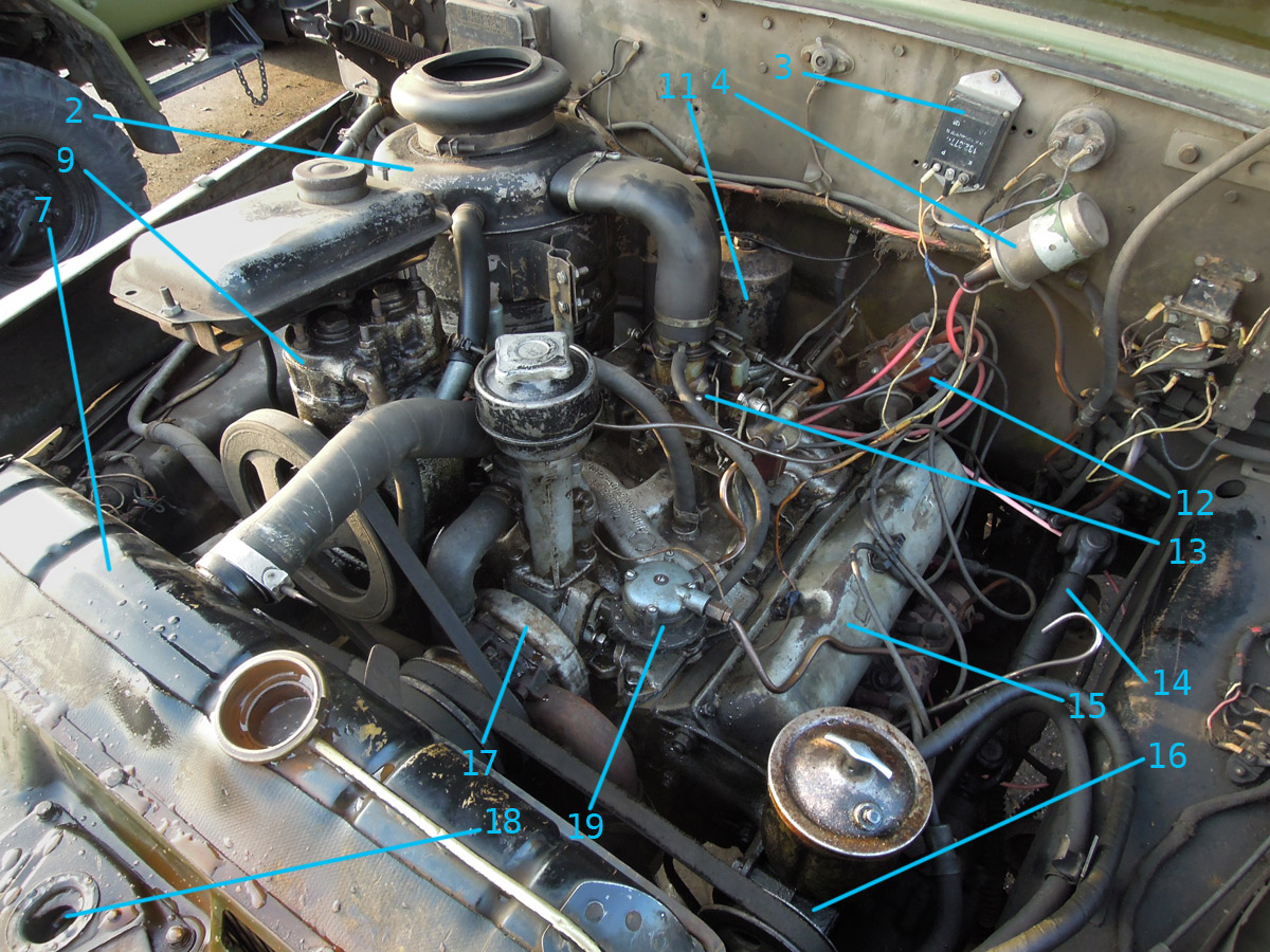 2 — air filter, 3 — ignition commutator, 4 — ignition coil, 7 — radiator, 9 — pneumatic compressor, 11 — oil filtering centrifuge;, 12 — autotrembler, 13 — carburetor, 14 — steering shaft, 15 — cylinder head cover, 16 — steering booster pump, 17 — water pump, 18 — hood lock, 19 — fuel pump